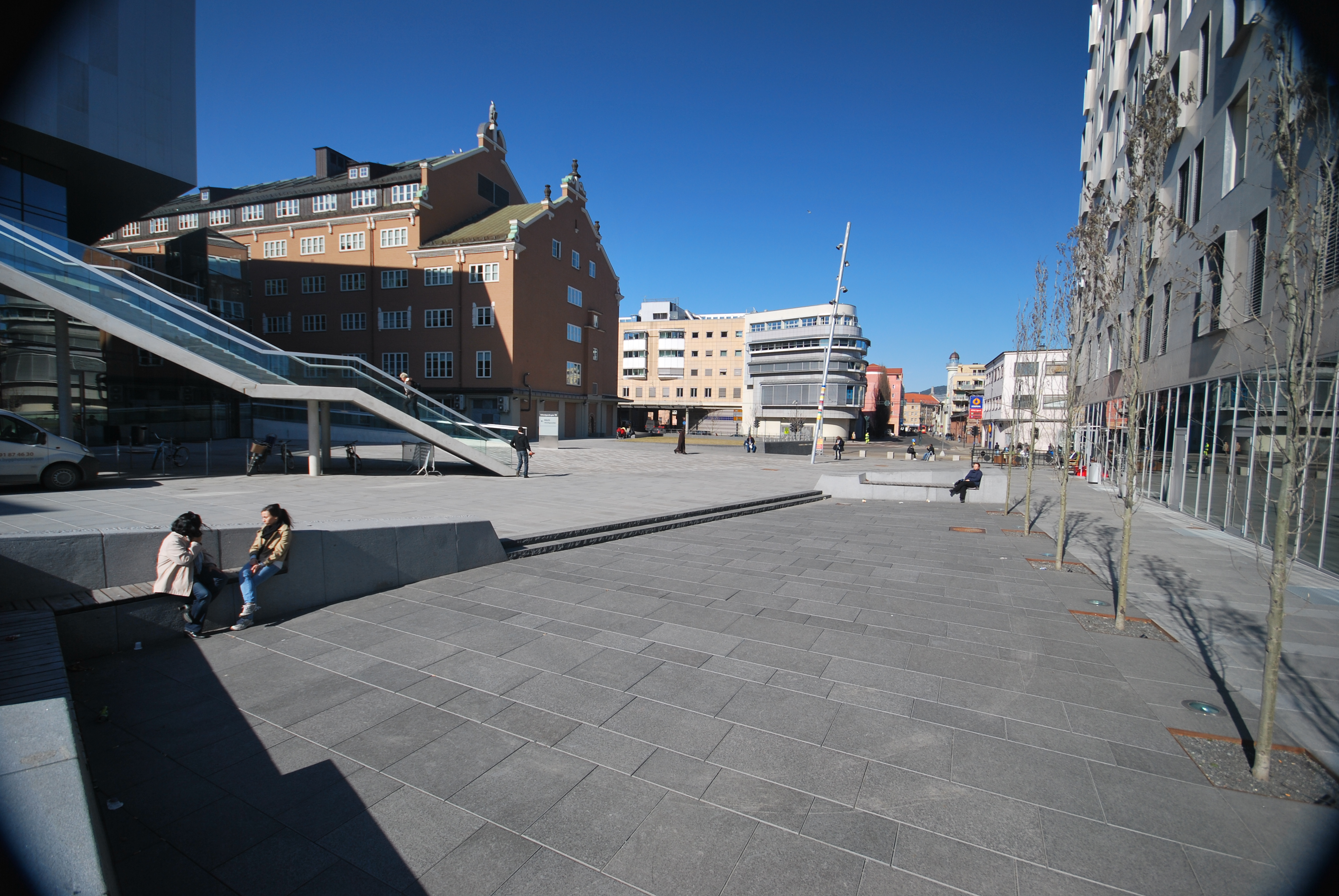 Annette Thommessen's Square (Norwegian "plass") at Grønland, Oslo, seen from south side.